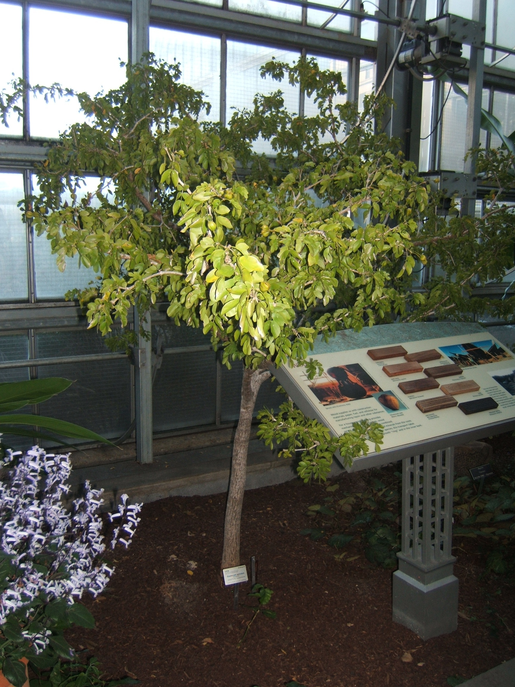 Guaiacum sanctum at the US Botanical Garden